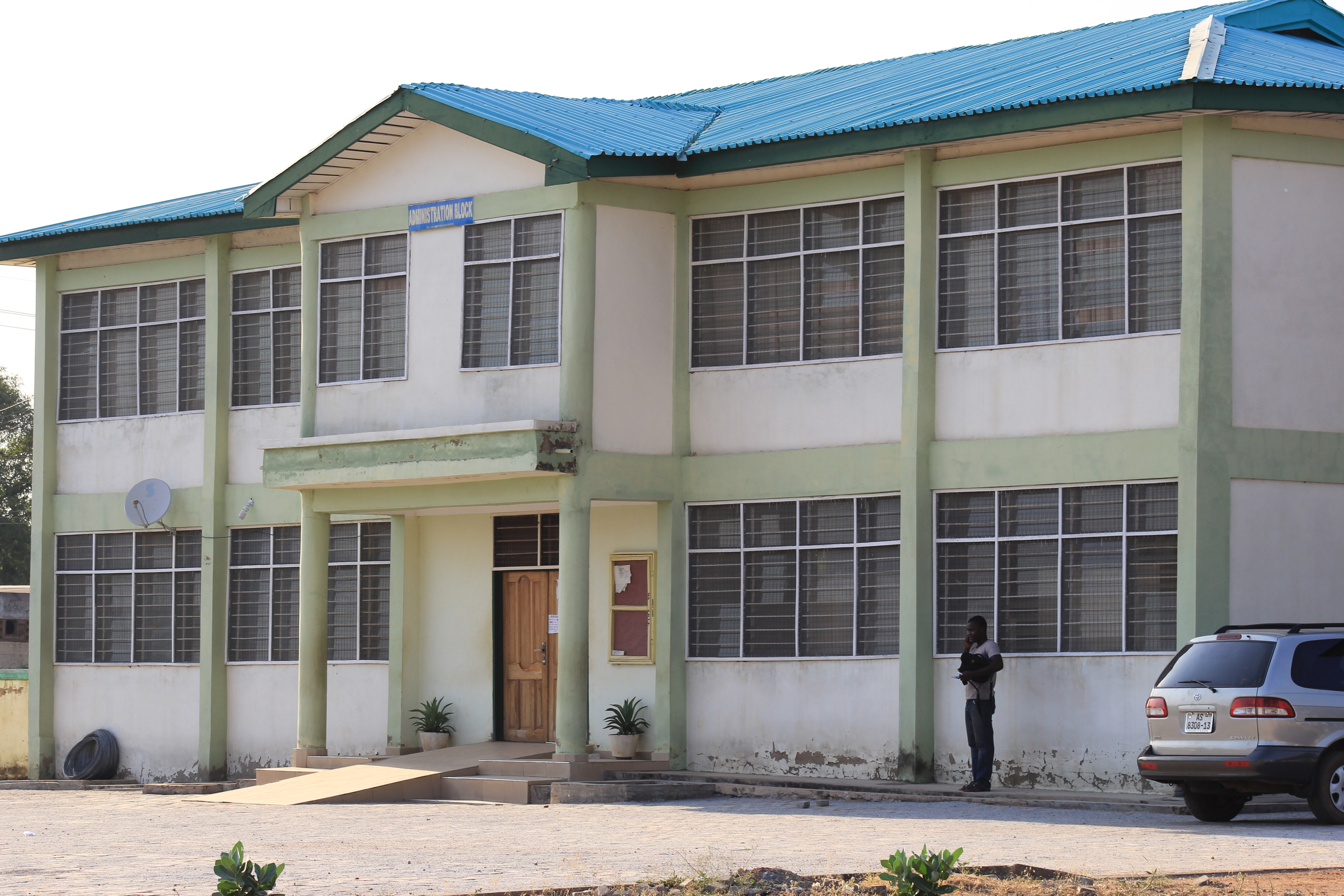 Kiwix training at Wa Sec Tech